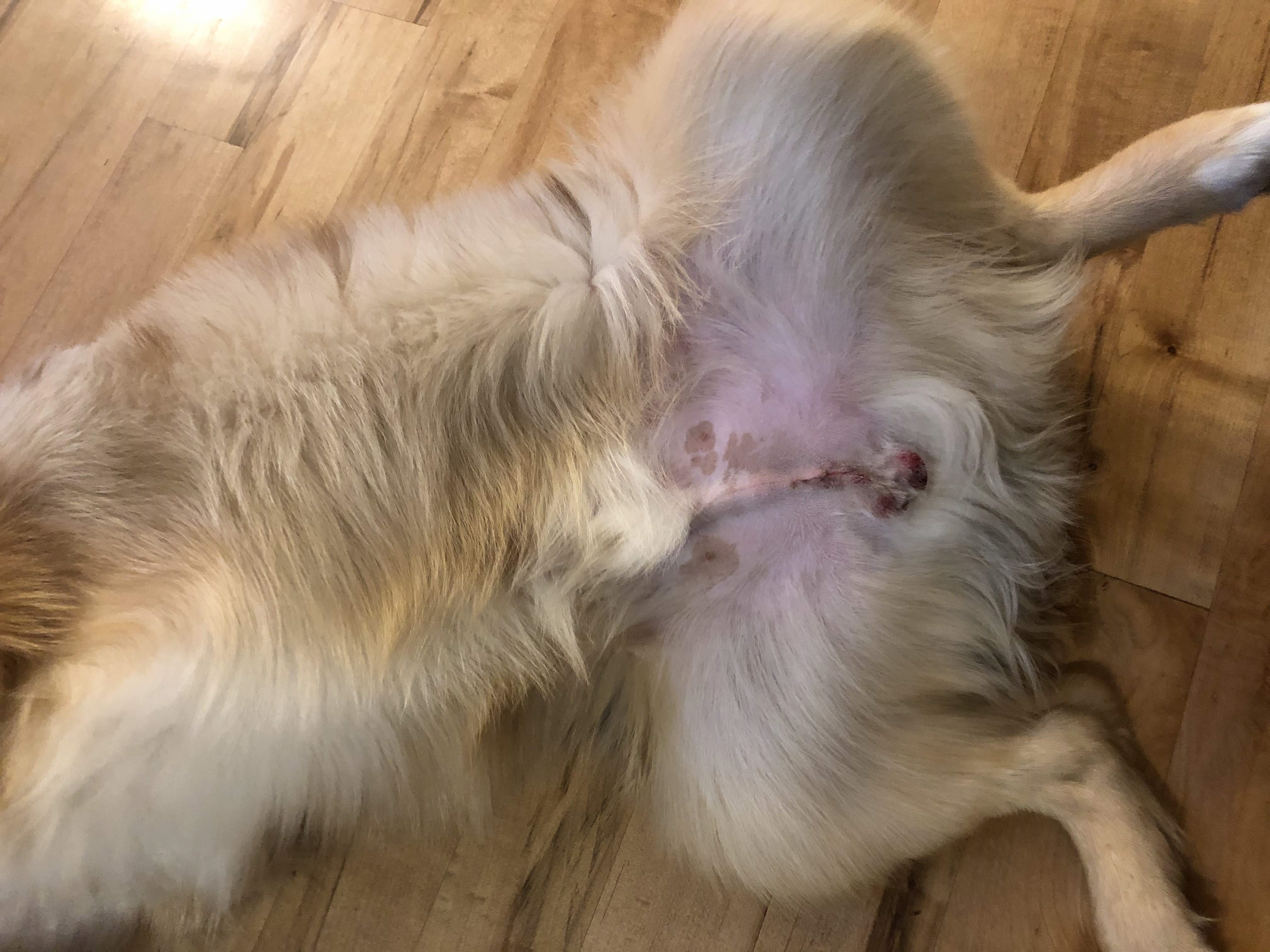 Incision from neutering a male dog at 6 months old, taken 12 hours after surgery.